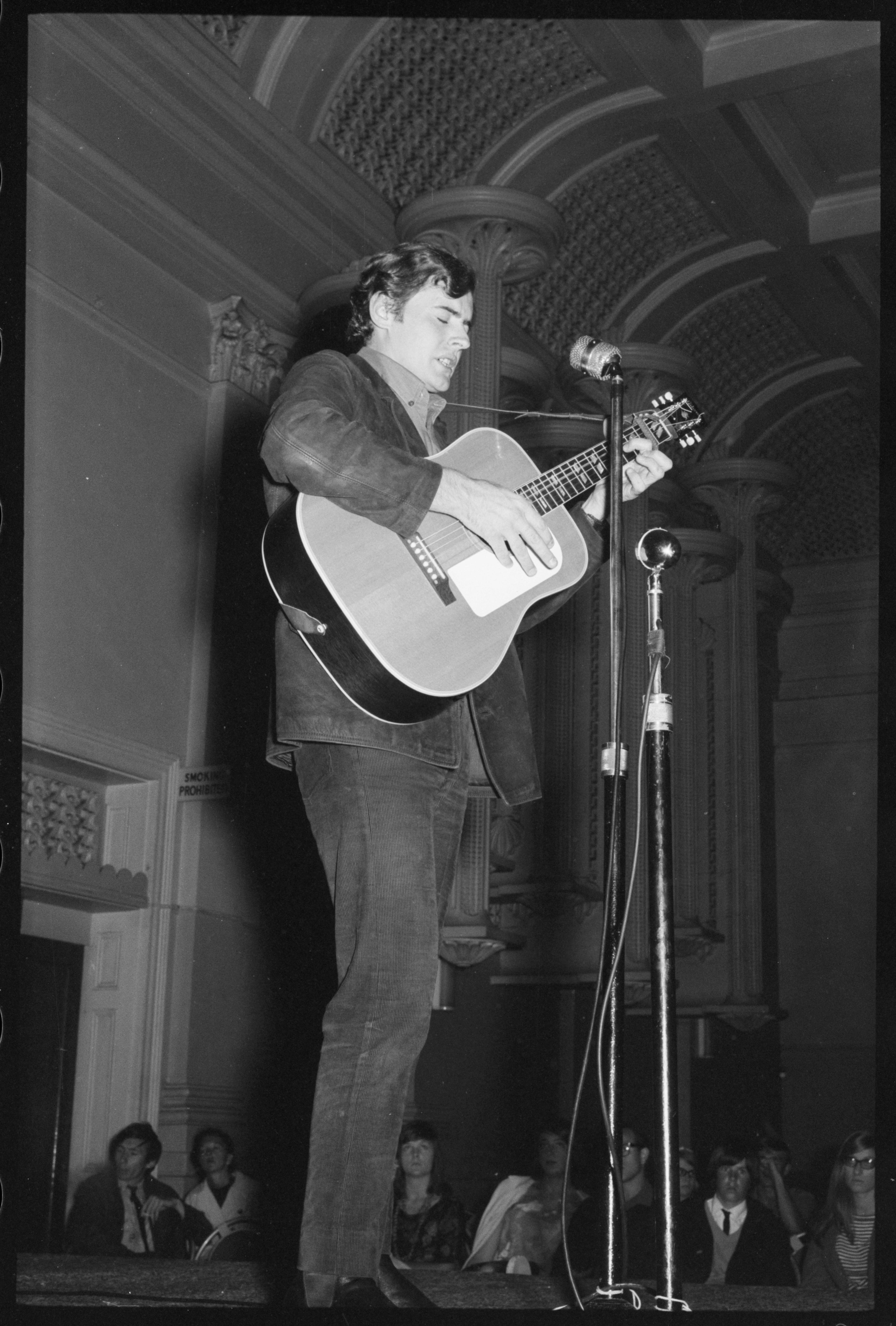 Can you help identify the people and places documented in this photograph? Call no ON 161/ Item 020 Format: Photograph 35 mm Find more detailed information about this photograph: Search for more great images in the State Library's collections: .au/search/SimpleSearch.aspx Access to collections for Indigenous people is guided by the Aboriginal and Torres Strait Islander Protocols for Libraries and Archives. Further information on the ATSILIRN Protocols is available here From the collection of the State Library of New South Wales